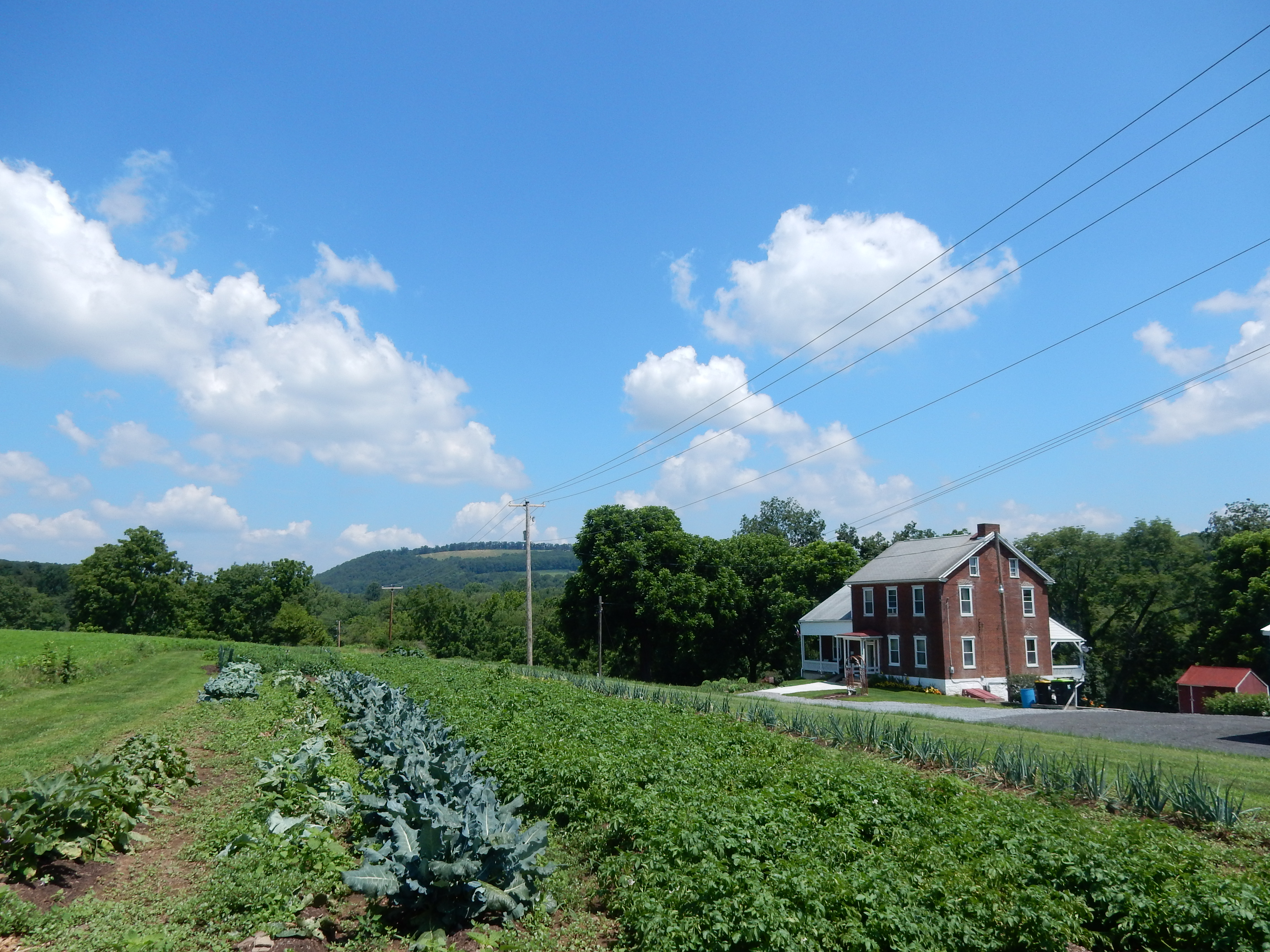 Farm on Meadow Dr., South Manheim Township, Schuylkill County, Pennsylvania. Looking north.